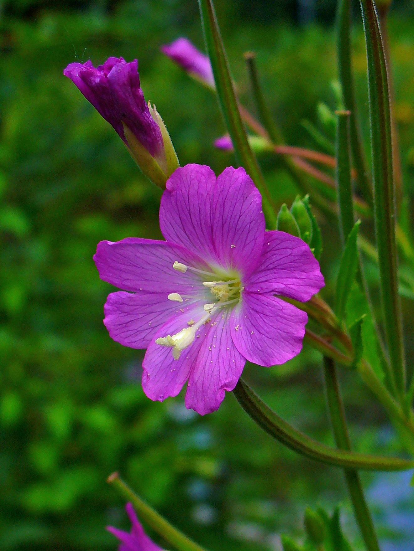 Epilobium montanum, Onagraceae, Broad-leaved Willowherb, flower; Karlsruhe, Germany.